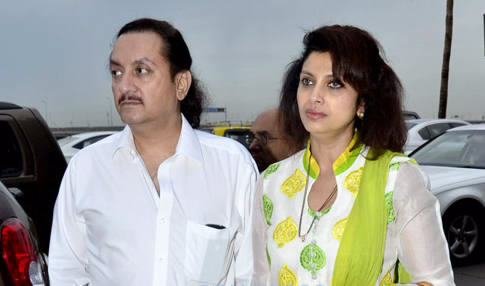 Varsha Usgaonkar with husband Ajay Shankar at Ravi Chopra's prayer meet